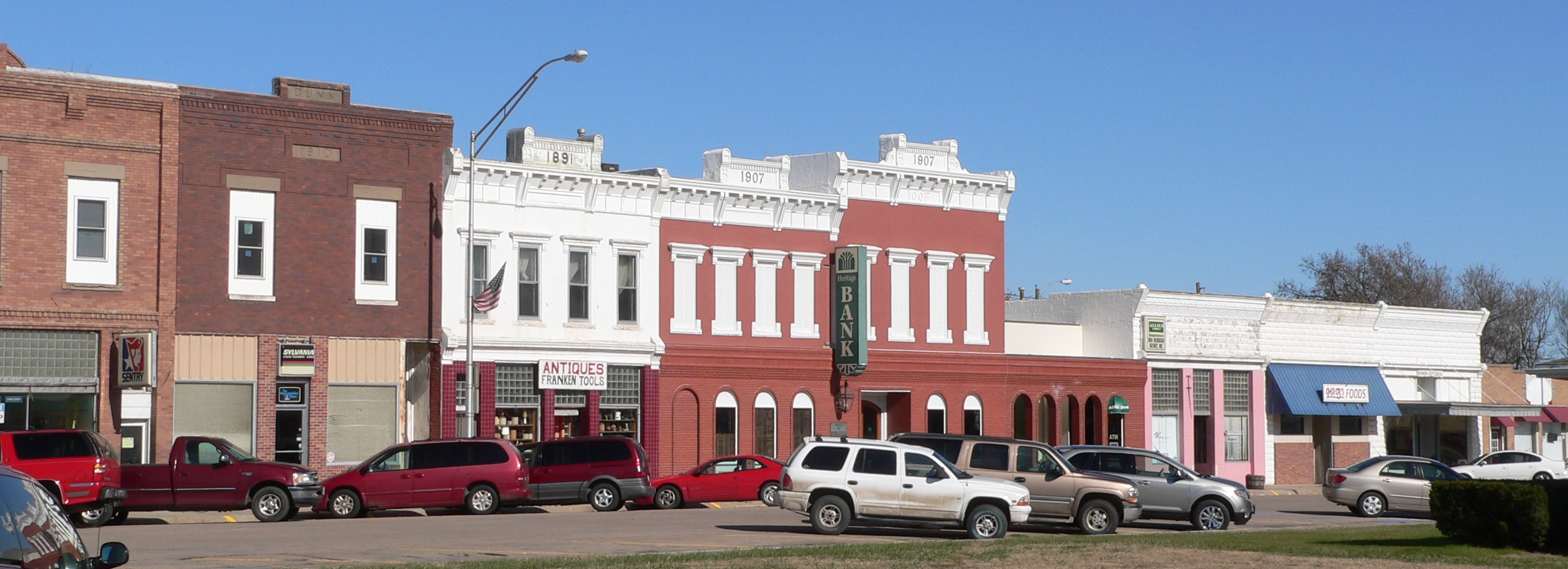 Downtown Wood River, Nebraska: north side of 9th Street between West and Main Streets.